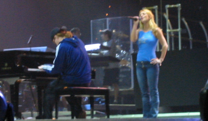 Spears Performing live